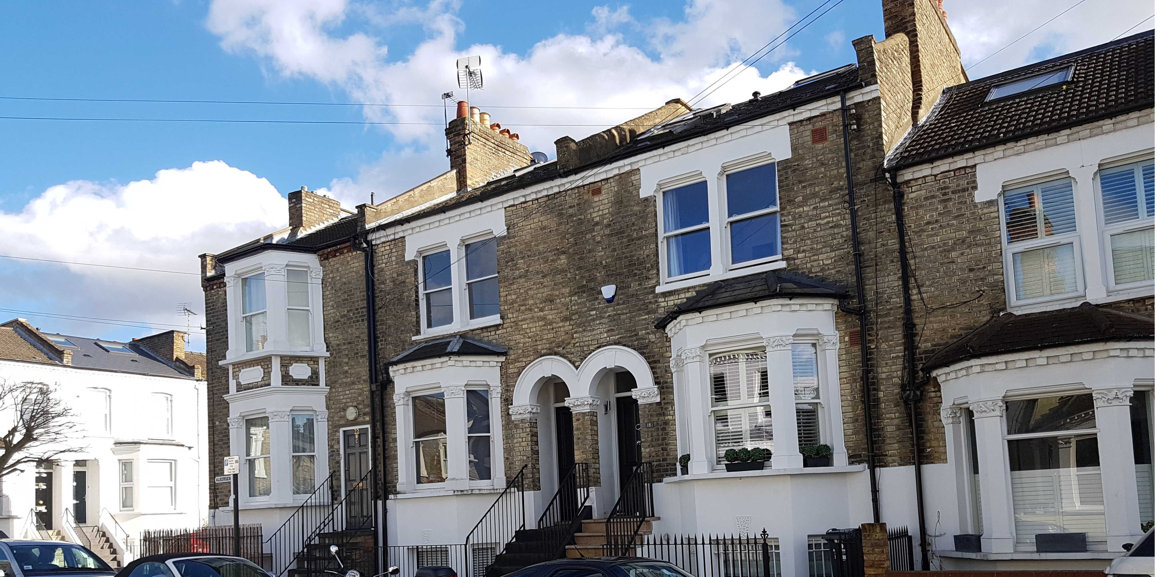 Housing